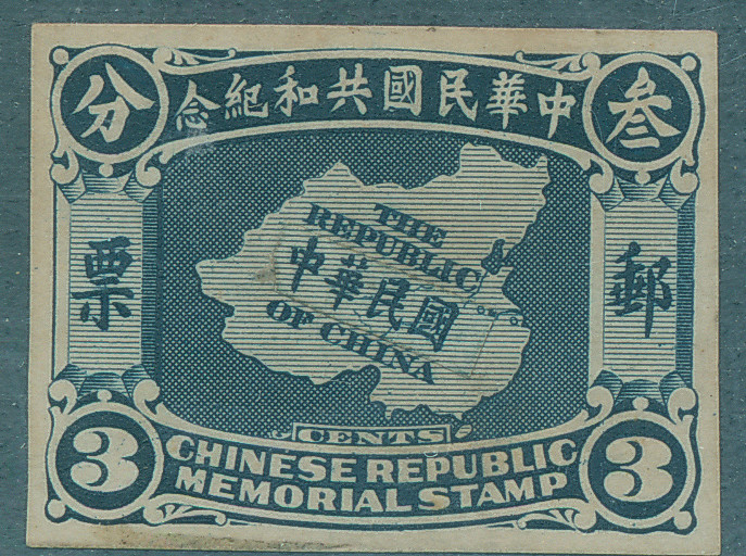 中文（中国大陆）: 1912年中华民国共和纪念邮票，此票为北京财政部印铸局雕刻版印纸，薄纸，未發行 Republican commemorative stamp, unissued specimen 1912.